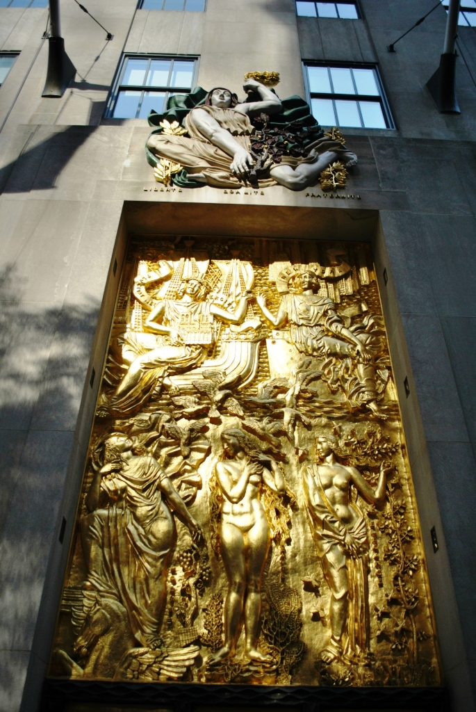 Rockfeller Center